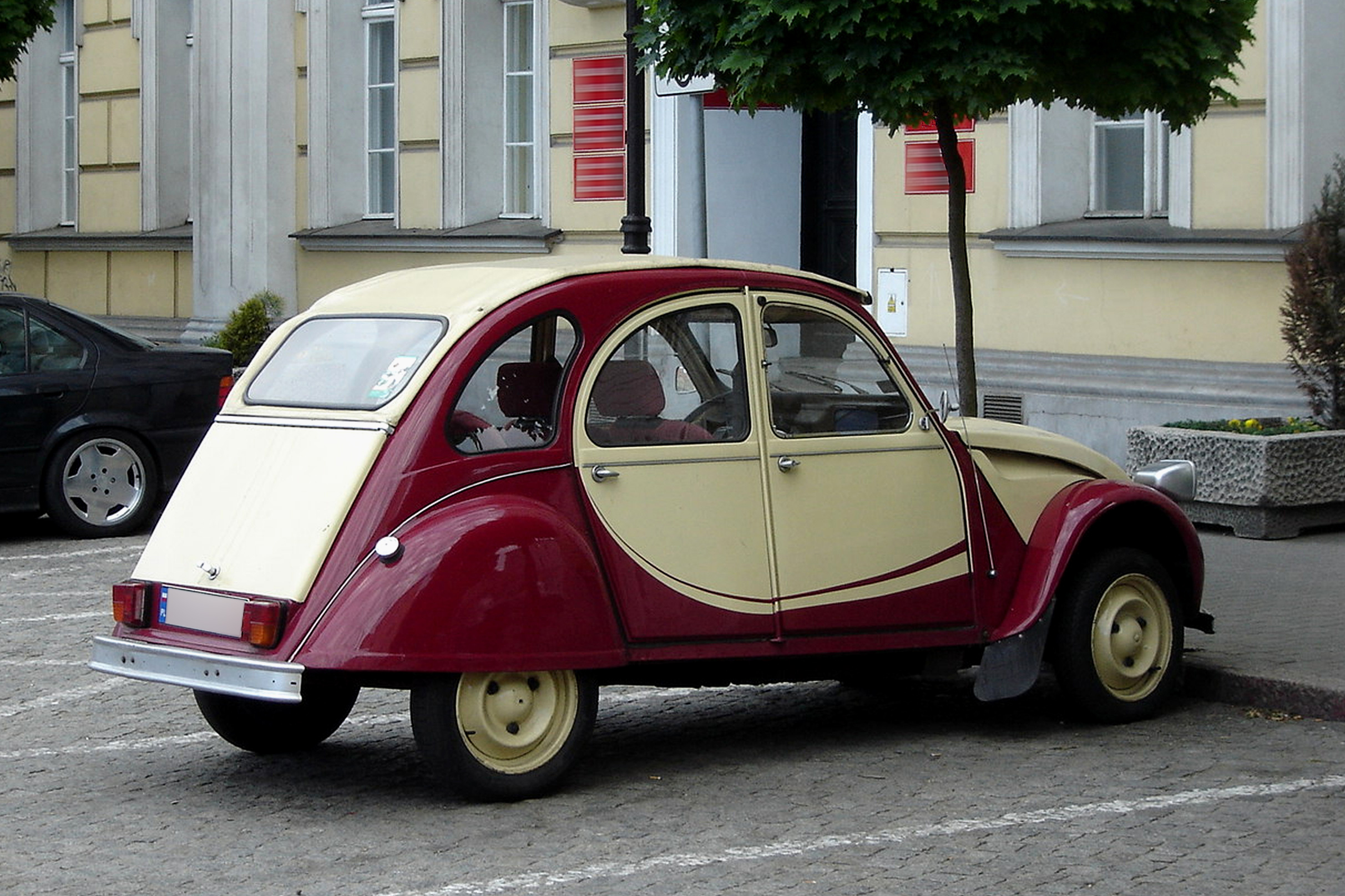 Citroёn 2CV